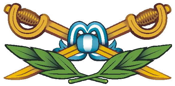 Emblem of the Argentine National Gendarmerie.